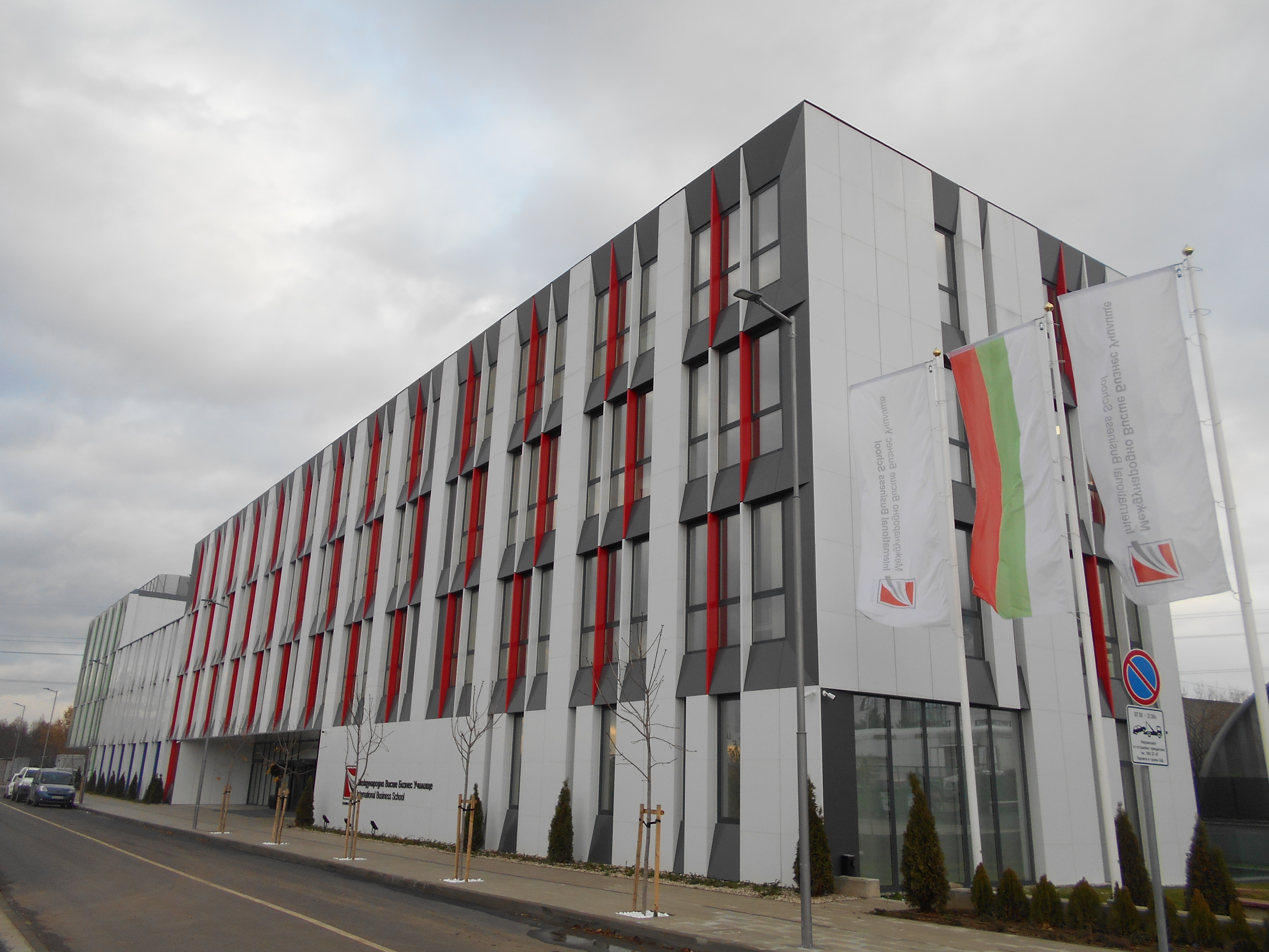 Center for Distance Learning of International Business in Sofia School Interior